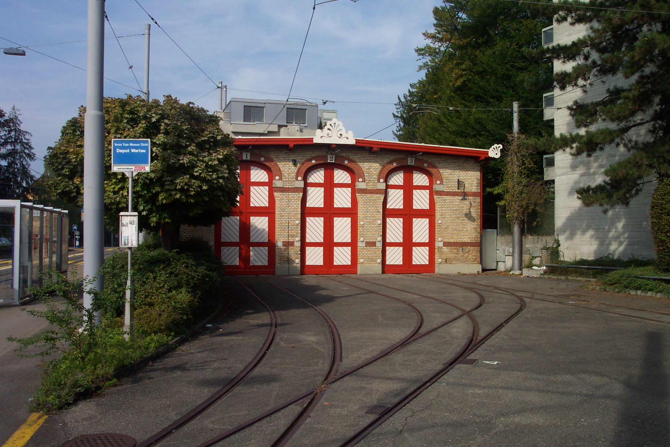 The former tram depot of the Strassenbahn Zürich-Höngg at Wartau in Zurich, Switzerland. Now used as a store and workshop by the Zurich Tram Museum. For more information, see Wikipedia articles Zurich trams and Zurich Tram Museum.